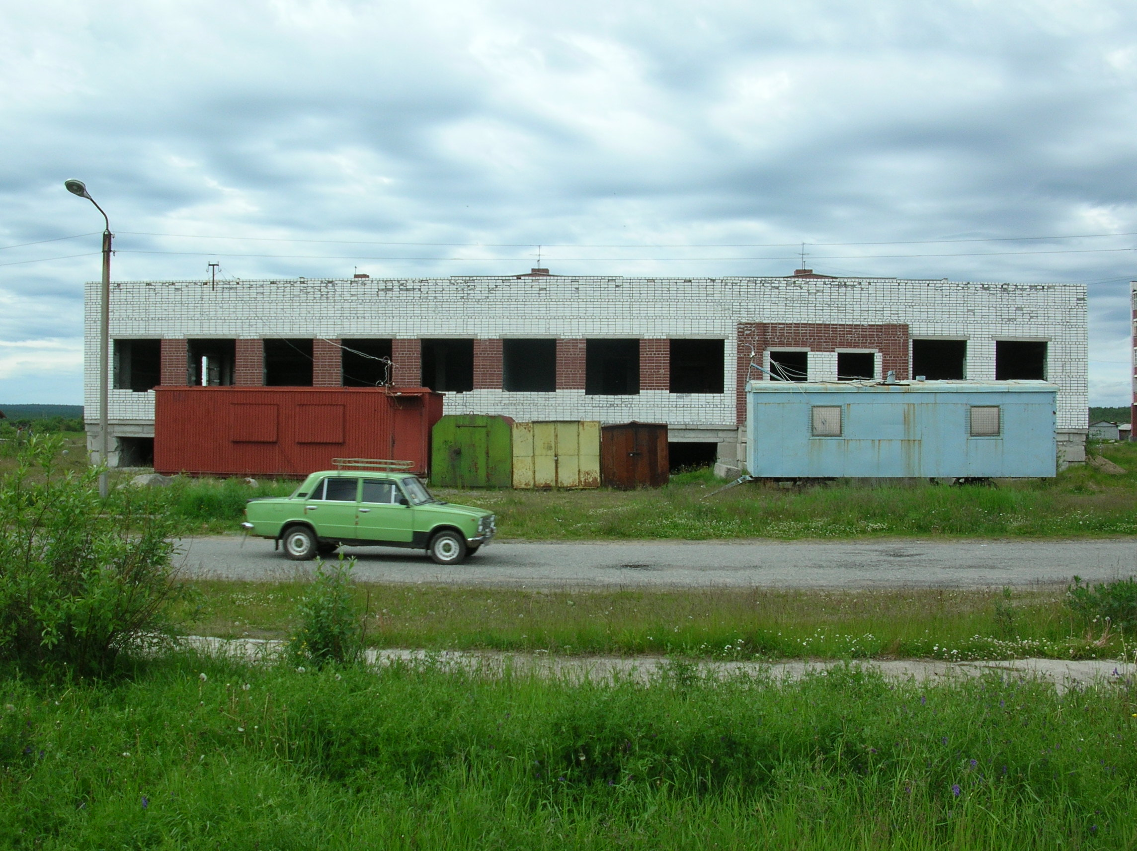 Building site of PU 26 in Lovozero